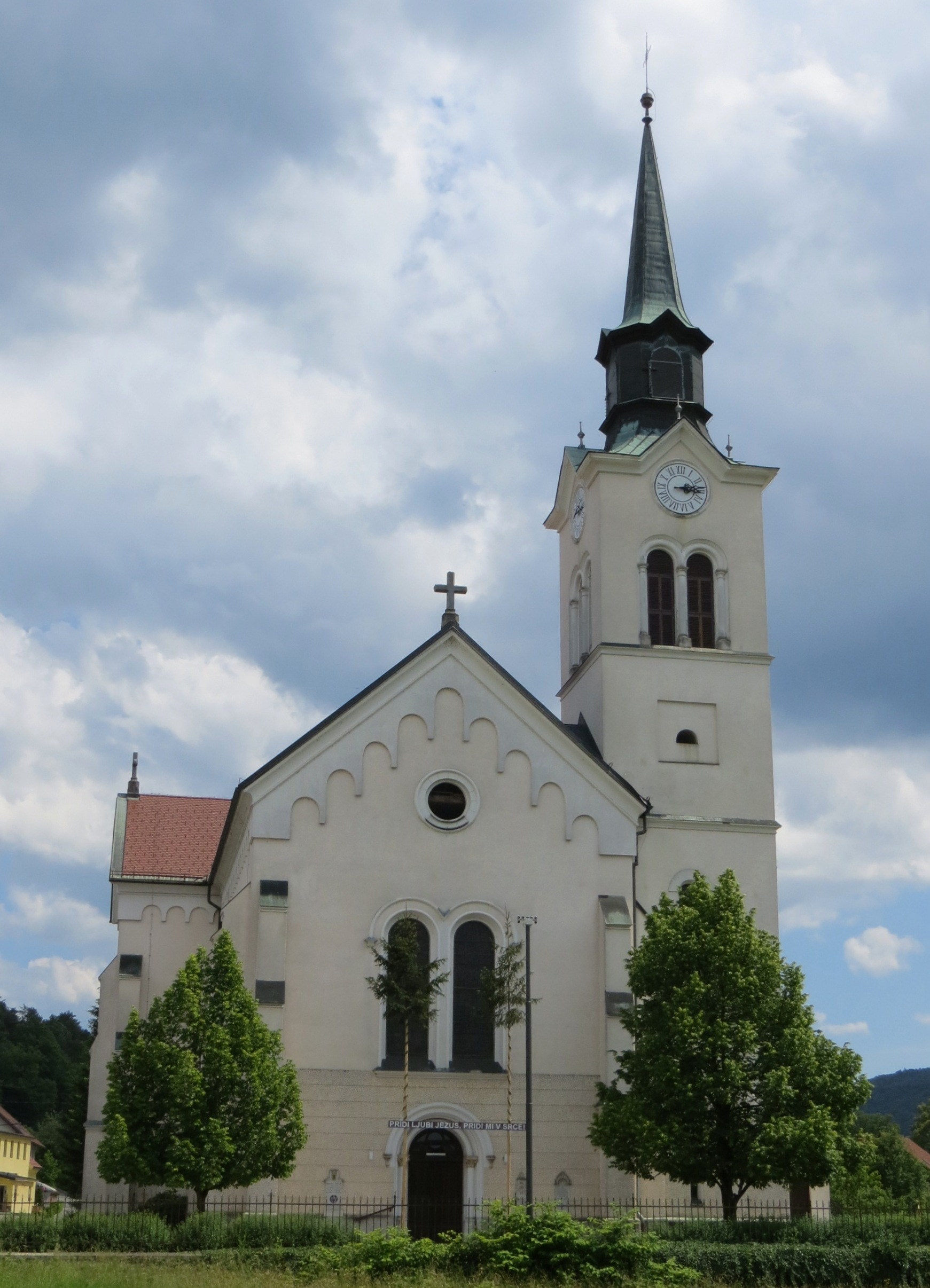 Saint Leonard's Church in Sostro, City Municipality of Ljubljana, Slovenia